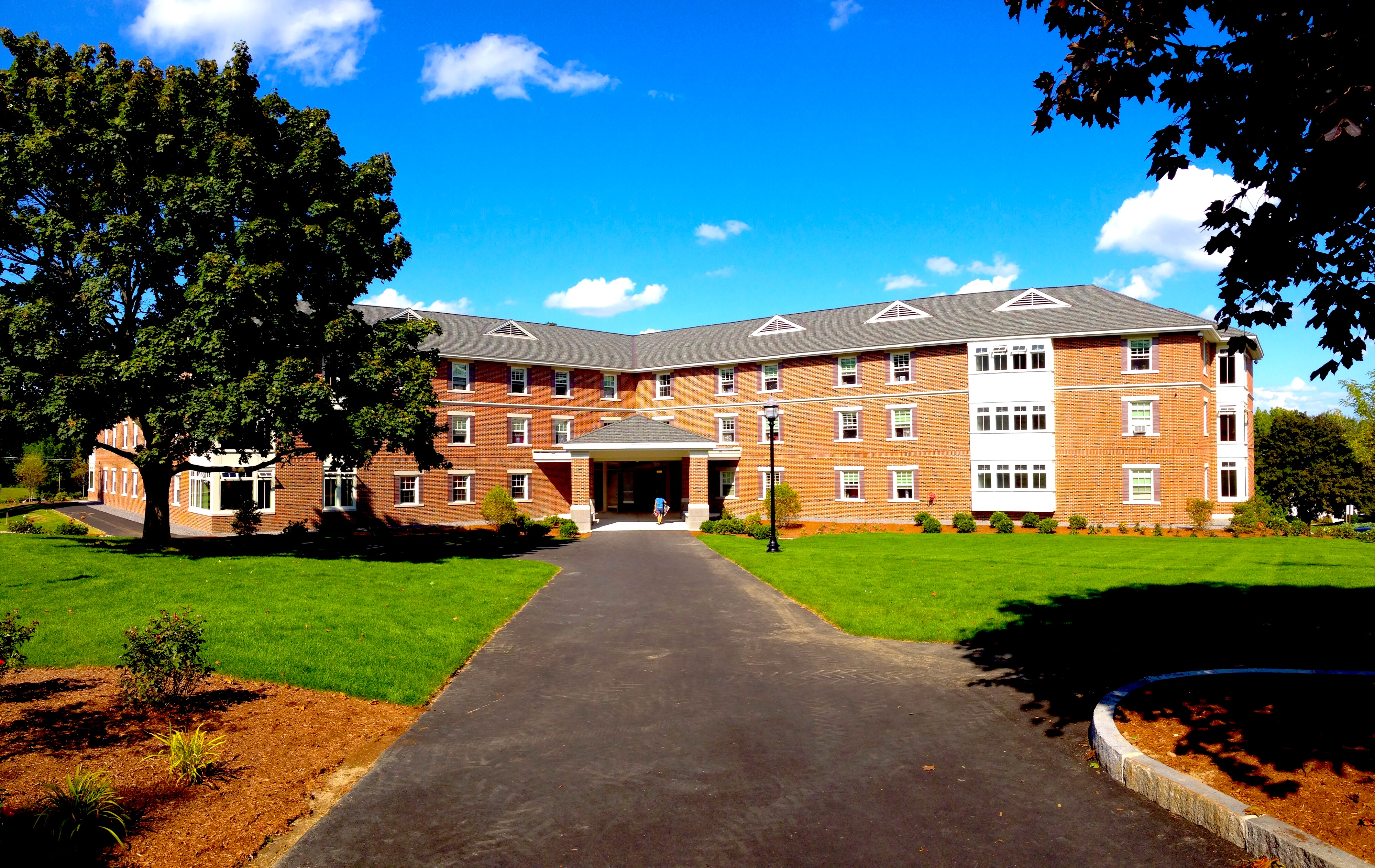 The "New Dorm" at St. Anselm College